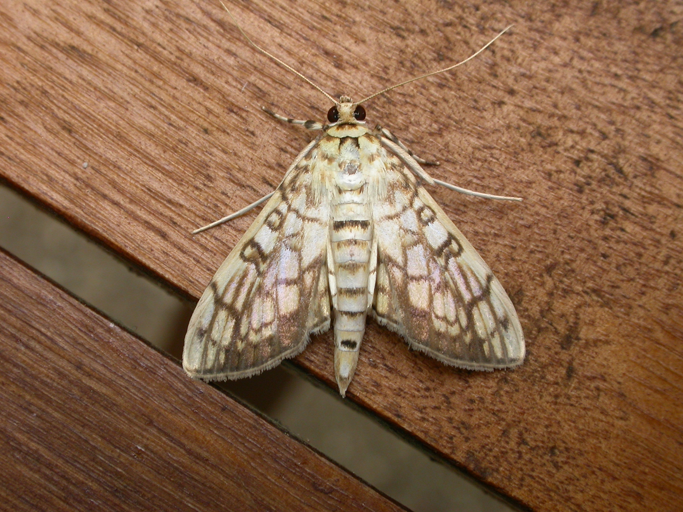 Haritalodes obliqualis (Lucas, 1898), Mission Beach, QLD, 19 December 2011